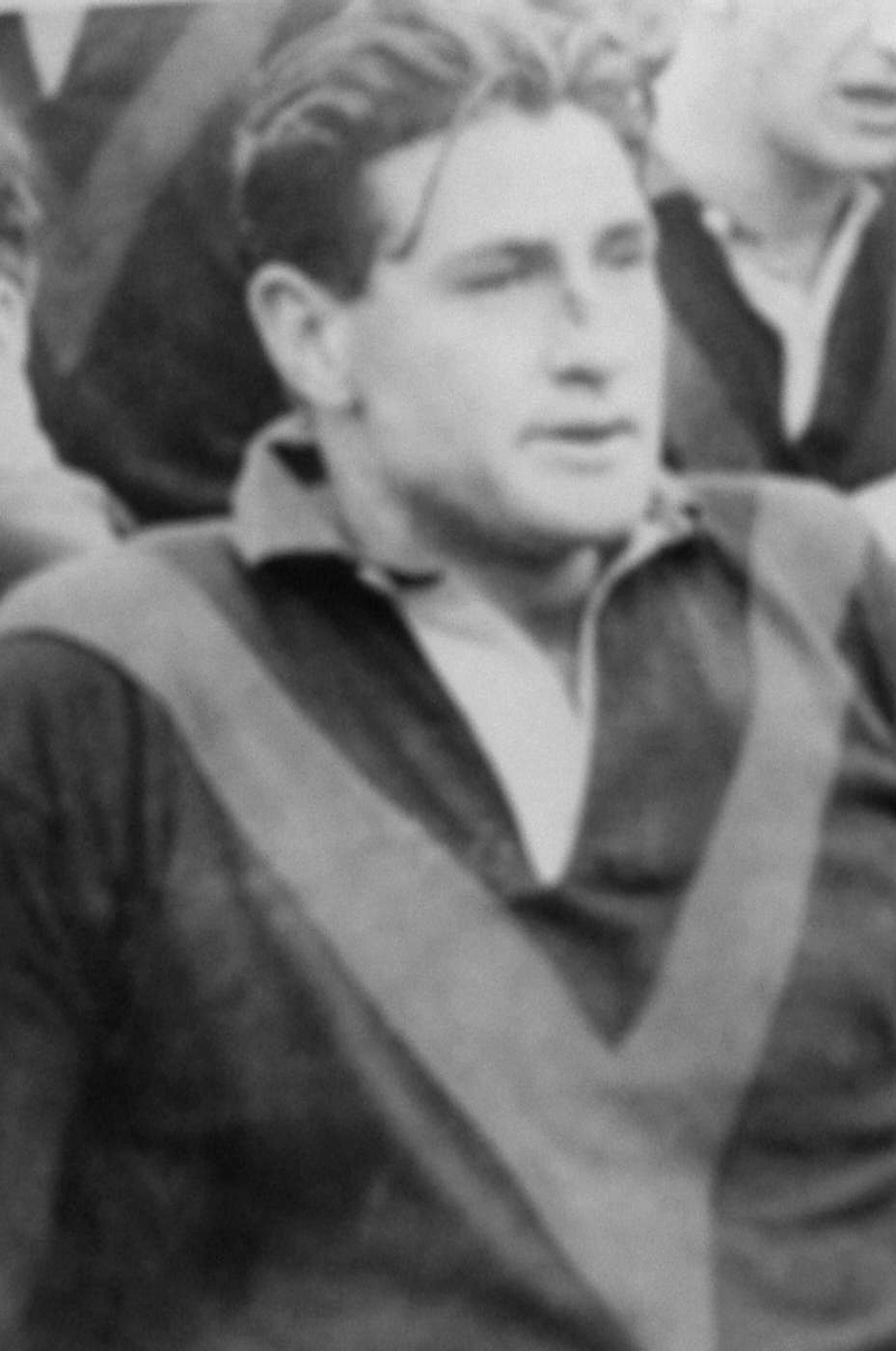 Keith Miller playing football for Victoria